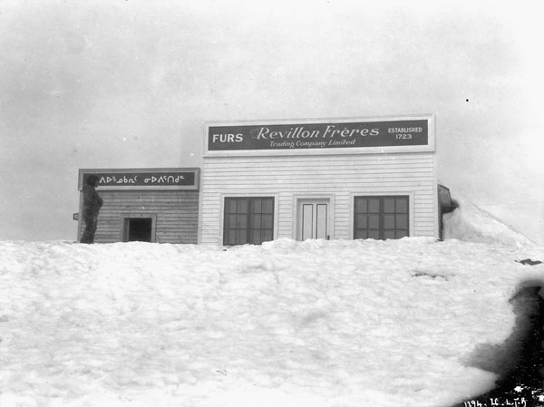 Revillon Frères Trading Company Limited, Repulse Bay, Nunavut, Canada